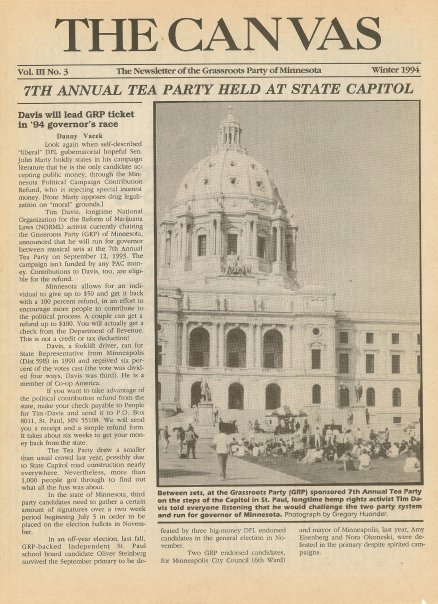 Scan of front cover of The Canvas, Vol. III, No. 3, Winter 1994